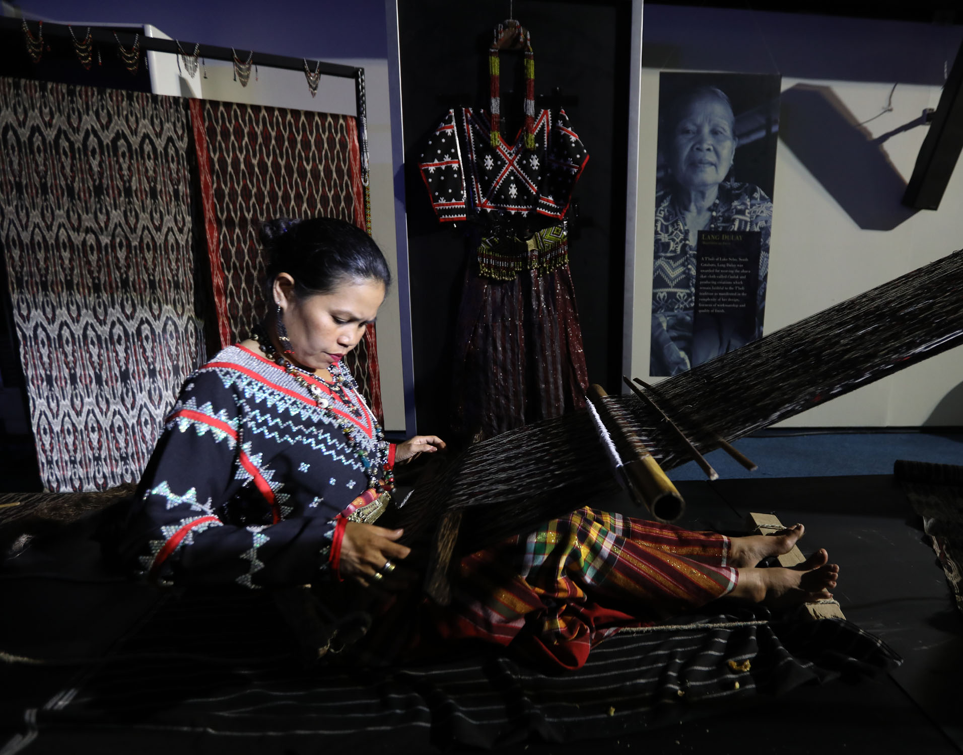 Ms. Julie Mantang Fanulan is a multi-skilled T'boli from Lake Sebu , South Cotabato. The T'bolis are most famous for their dream-inspired and spirit infused T'nalak weaving, an art form perfected over decades of practice by T'boli women. The T'nalak weavings were on display on Monday ( Dec. 10, 2018) during the Philippine observance of the 70th Anniversary of the Universal Declaration of Human Rights (UDHR), held at the Department of Foreign Affairs, Pasay City.